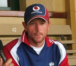 Paul Collingwood at Adelaide Oval